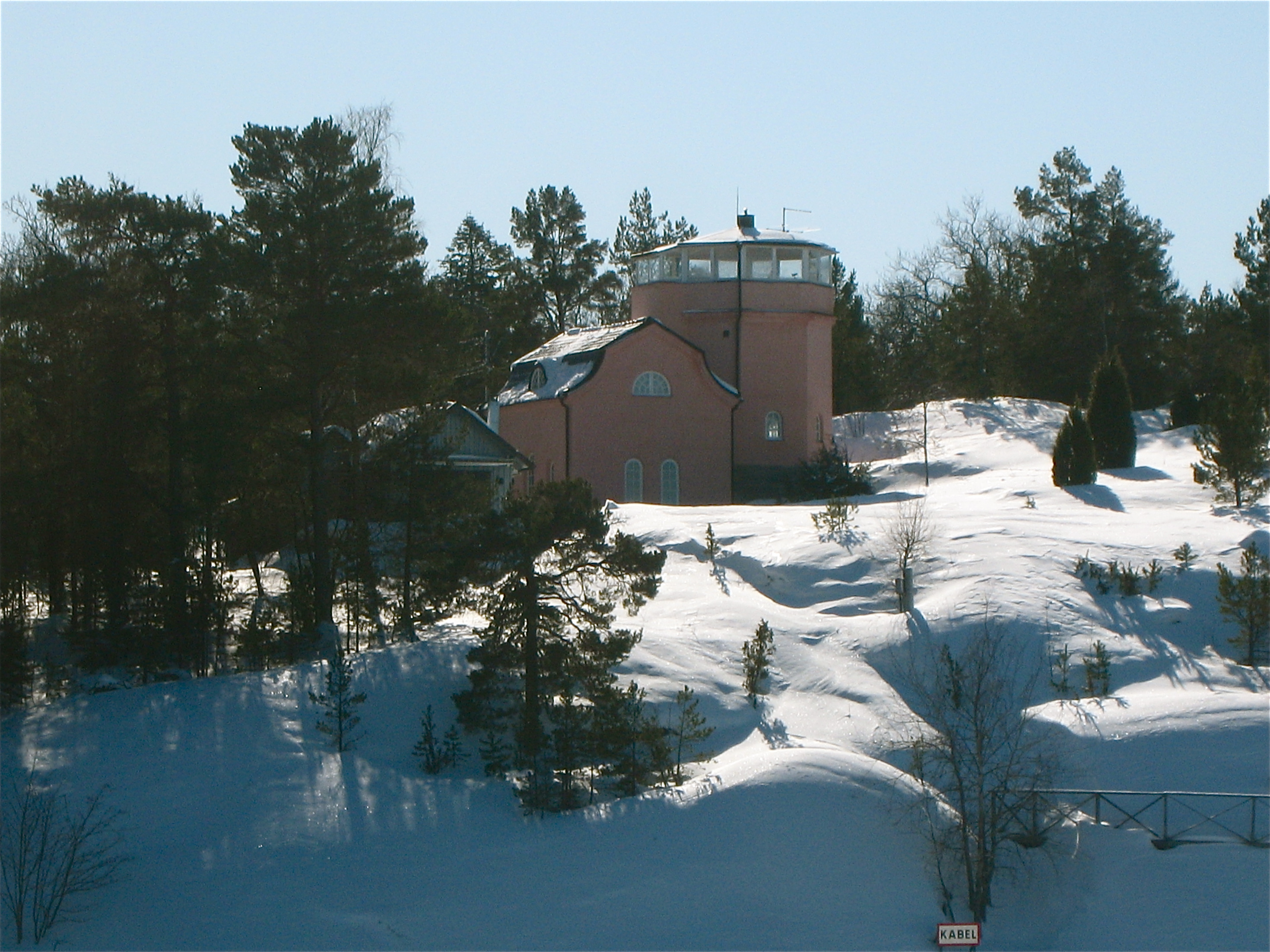 Vattentornet på Trångholmen.